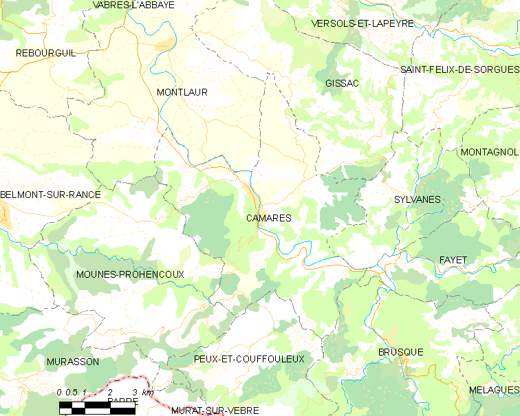 Map commune FR insee code 12044.png - Camarès